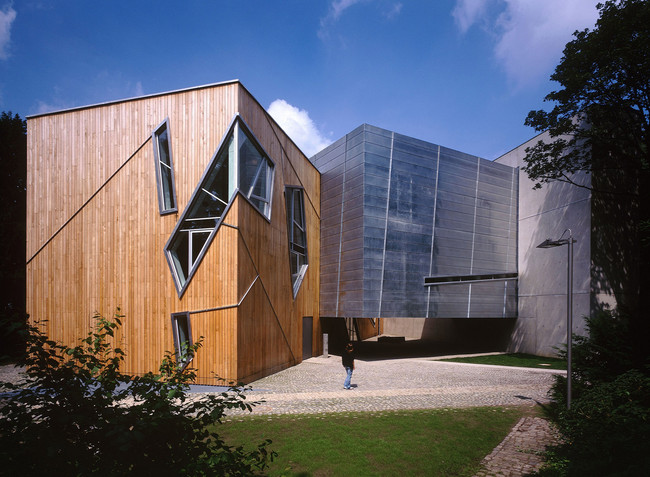 The Felix Nussbaum Haus in Osnabrück, Germany. A museum, designed by architect Daniel Libeskind, which houses around 160 paintings by the German-Jewish painter, Felix Nussbaum, who was killed in the Holocaust.